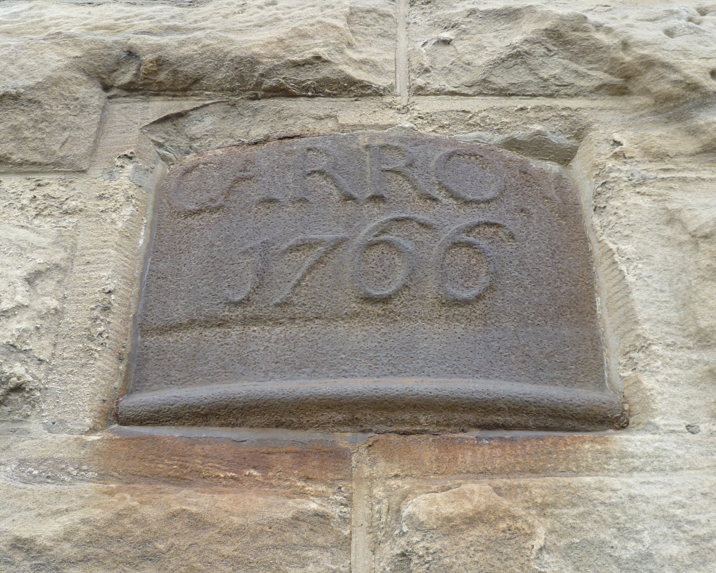 A fragment of the main cylinder of James Watt's first operational steam engine, embedded in the wall of the old clocktower entrance to the Carron Works outside Falkirk